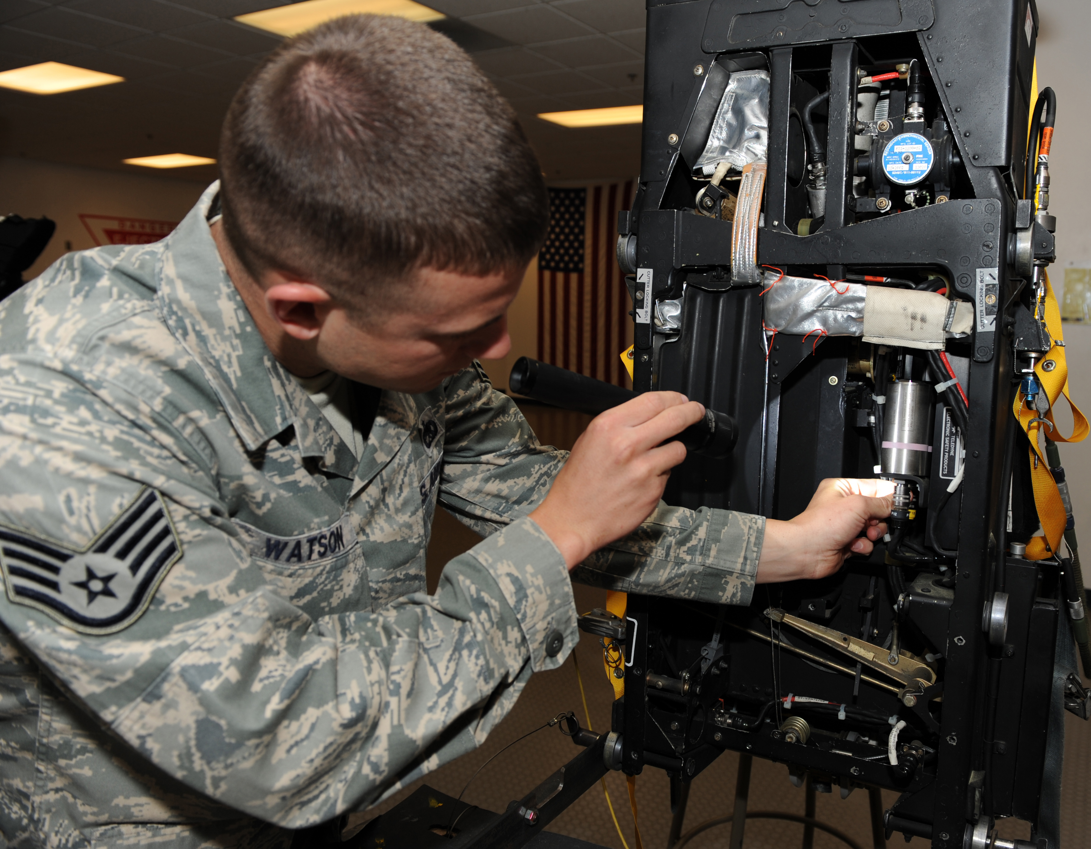 The ACES II Ejection seat being worked on by Egress Personnel.